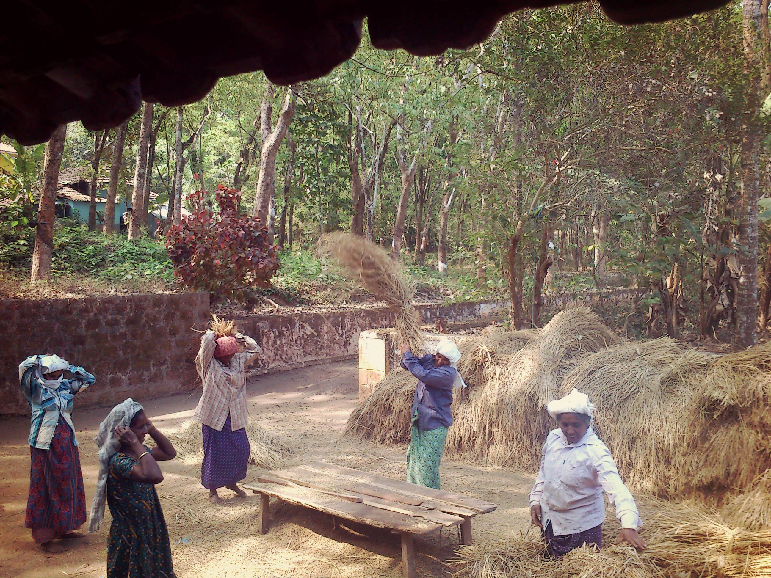 Indian women milling dry paddy by beating on a wooden platform